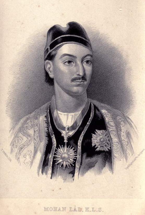 Mohan lal an indian politician